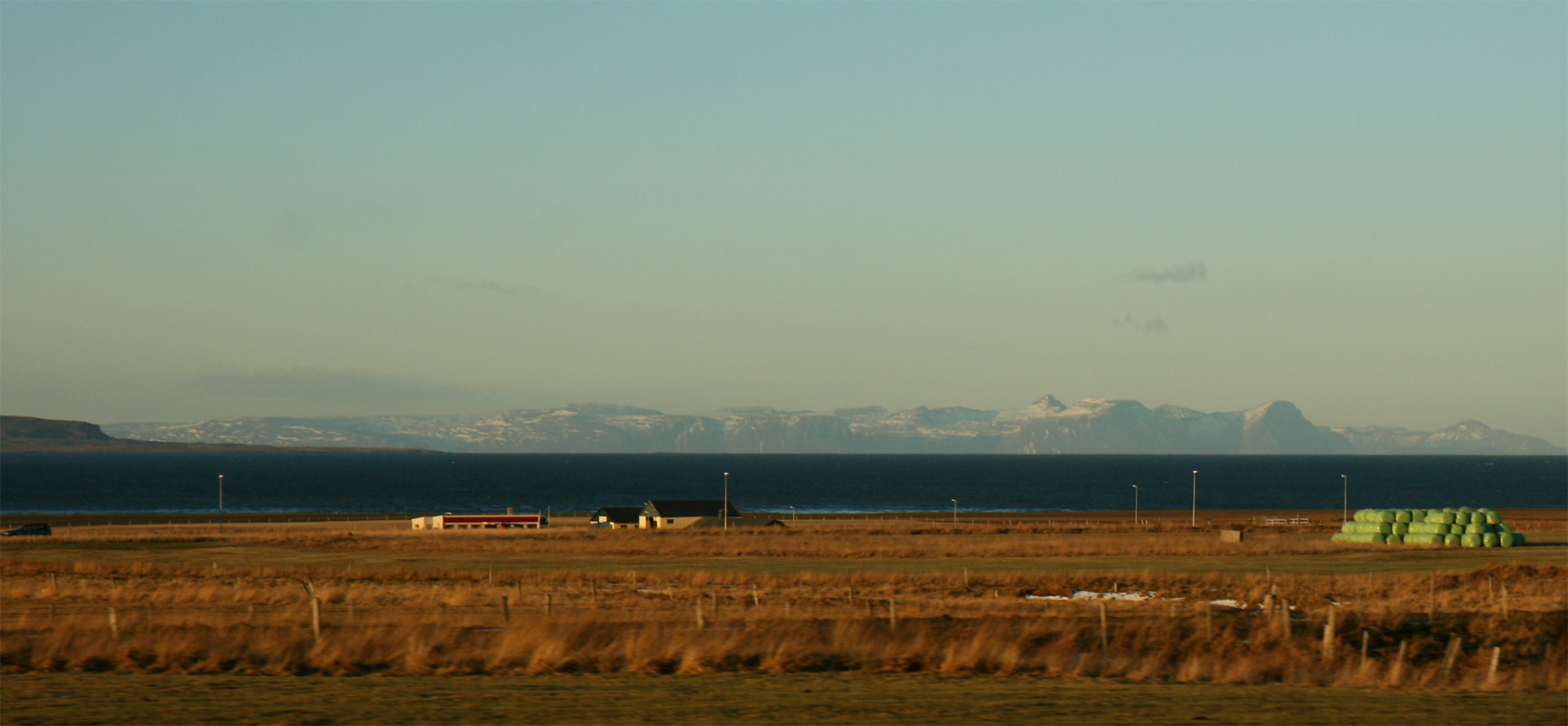 Hjaltabakki farm, south of Blönduós, across Húnafjörður, the north tip of Vatnsnes peninsula and Húnaflói to Ballafjöll in the Westfjords. November 21 12:45 Iceland, November 2007 Photo by me user debivort (or friend, with permission given to upload and license freely).